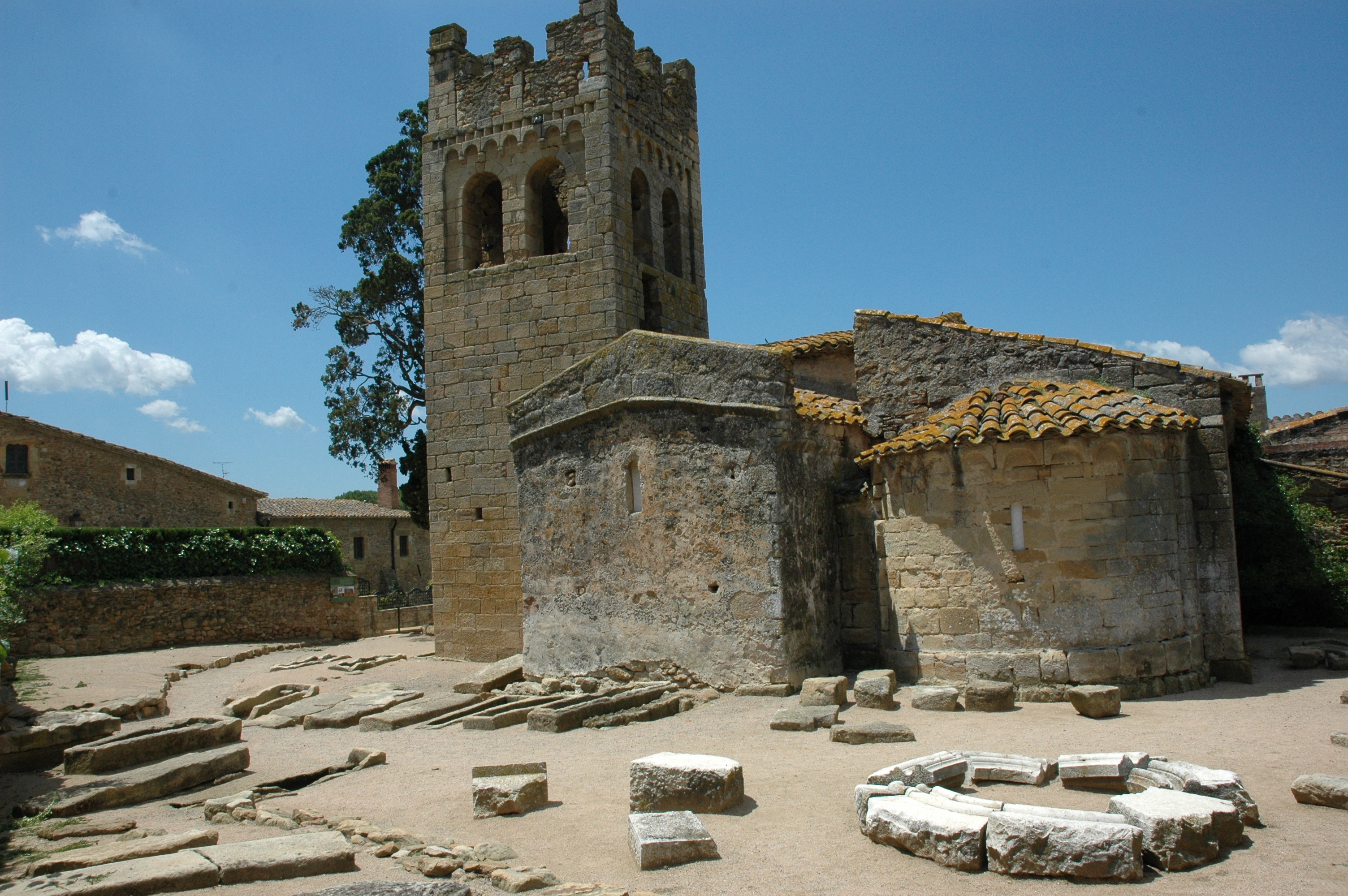 Church of Sant Esteve de Canapost, with a rectangular pre-romanesque apse and a circular romanesque apse